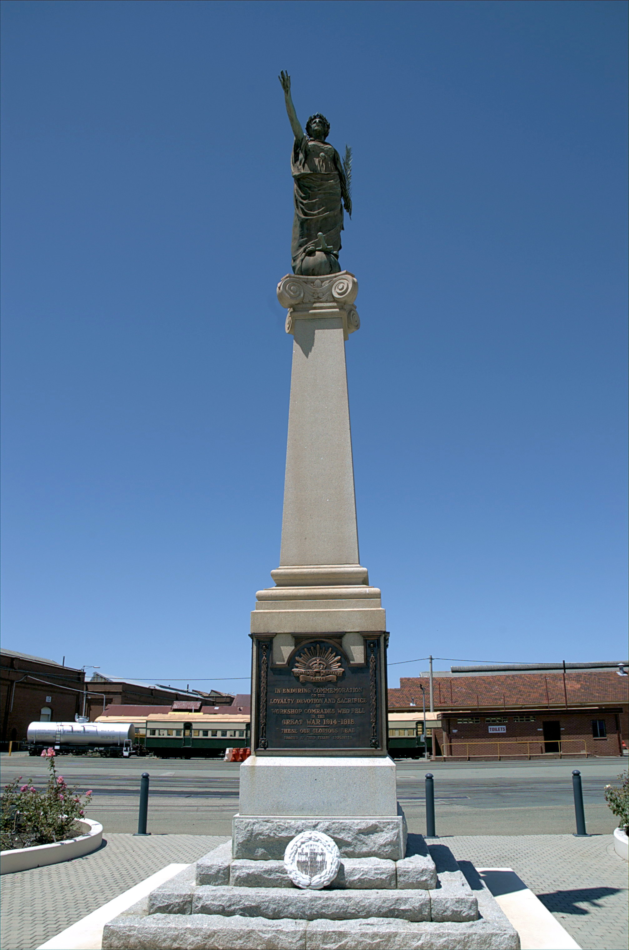 "Peace" – Memorial to Fallen Soldiers - at Midland Railway Workshops in the Perth suburb of Midland, Western Australia.